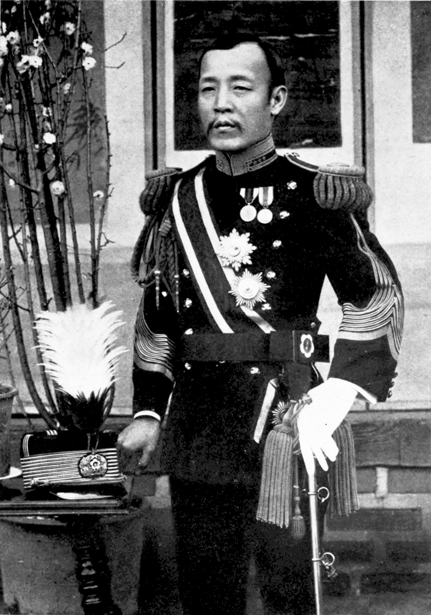 Min Yong Whan, Prince and General, c1900; p.279 The passing of Korea (book); committed suicide in November, 1905, as a protest against the destruction of Korean independence by Japan